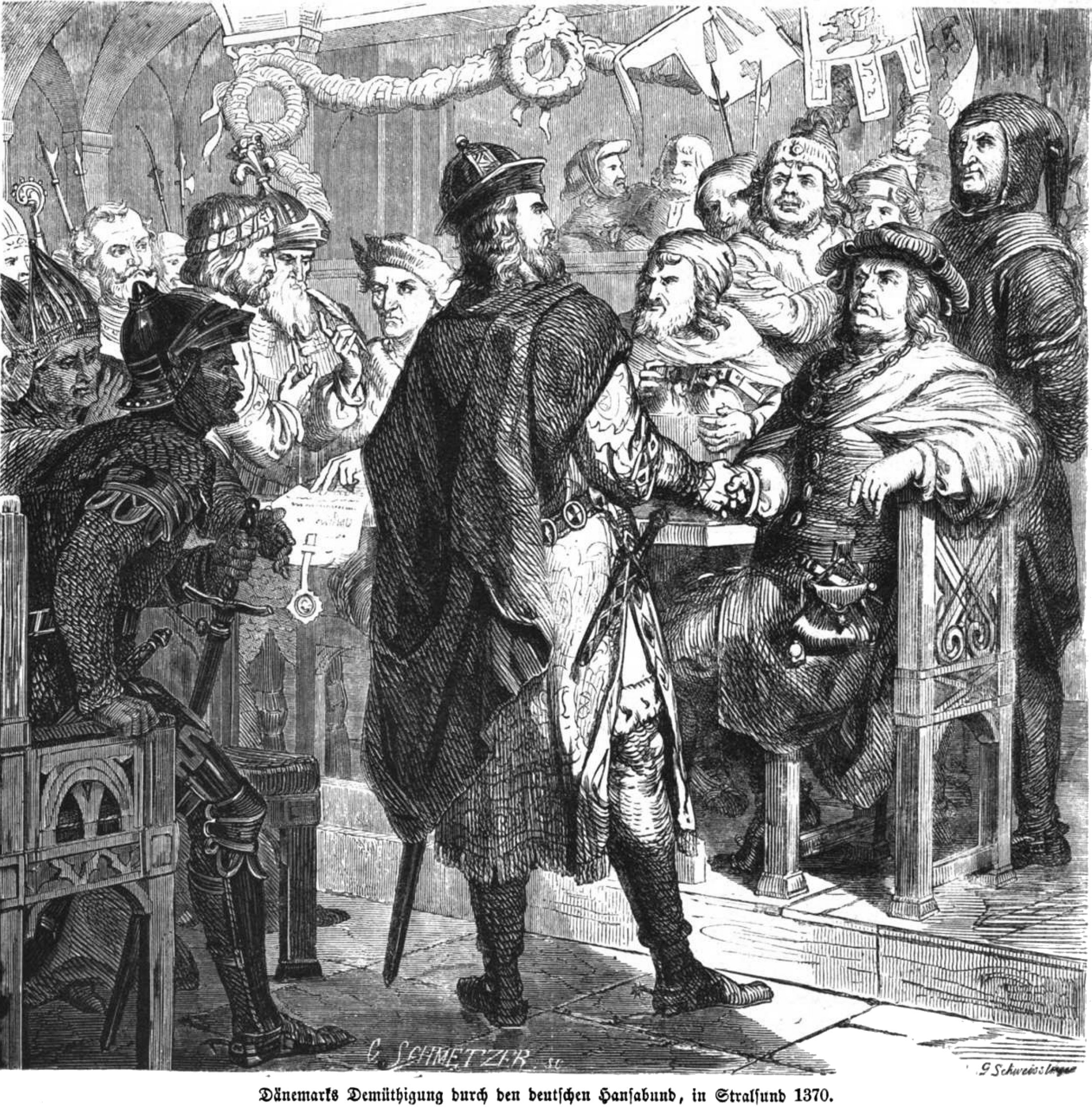 caption: "Dänemarks Demüthigung durch den deutschen Hansabund, in Stralsund 1370."